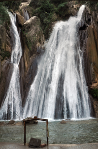 A close up of Kempty fall